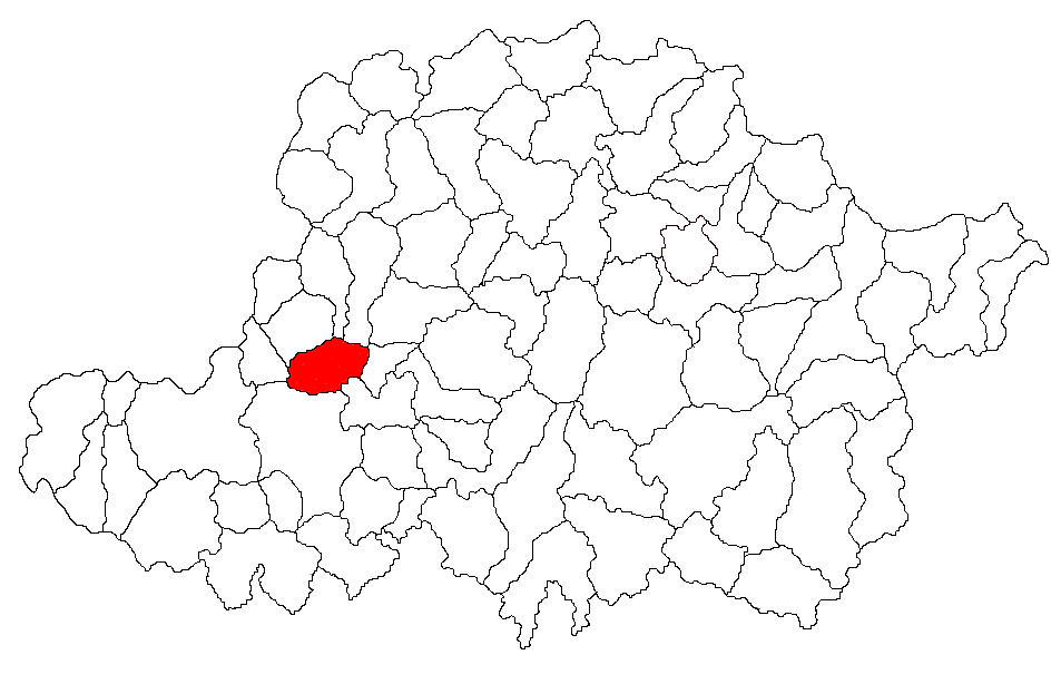 Locator map of the commune of Șofronea in Arad County, Romania